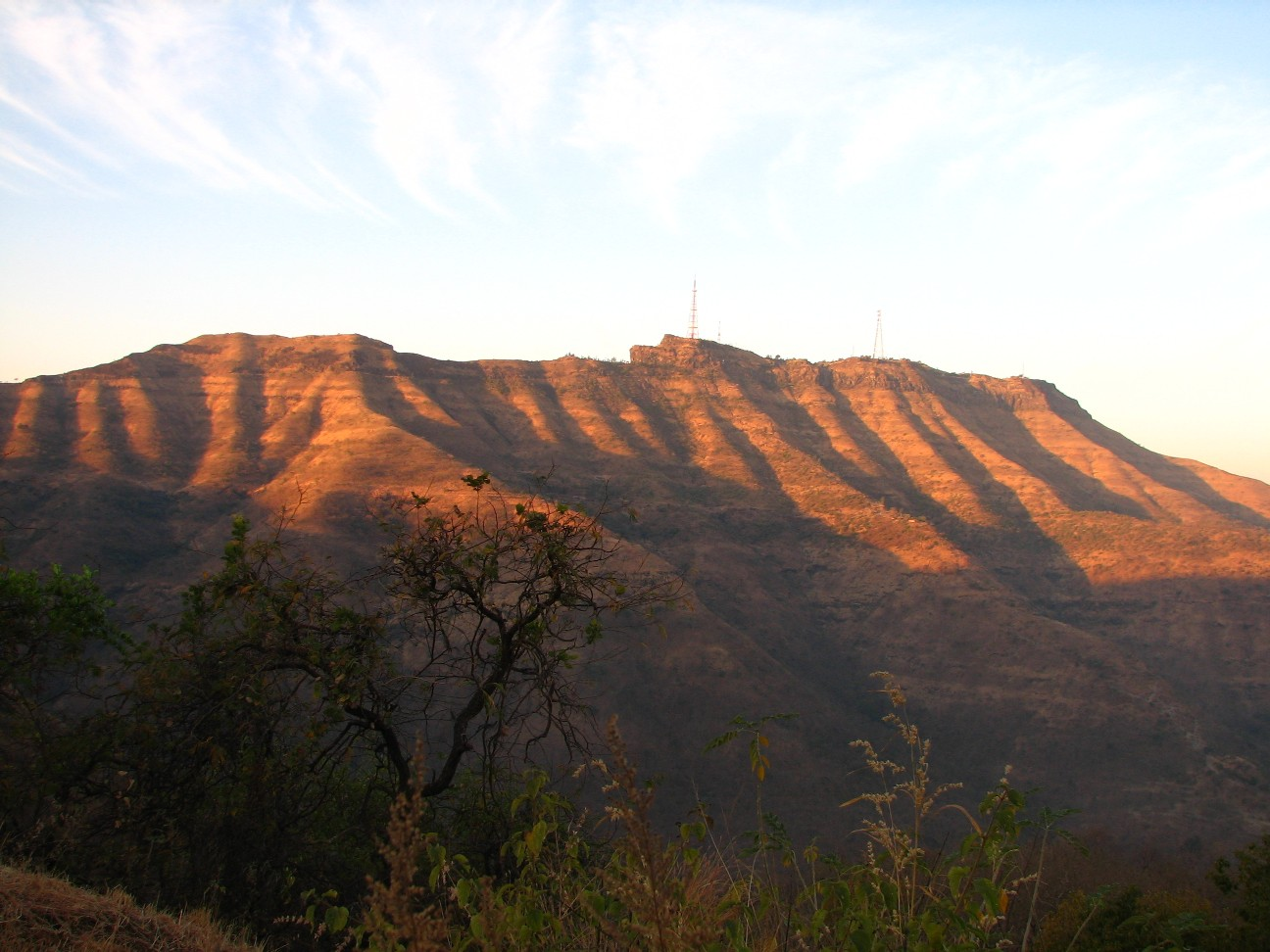 A Photo of Sinhagad